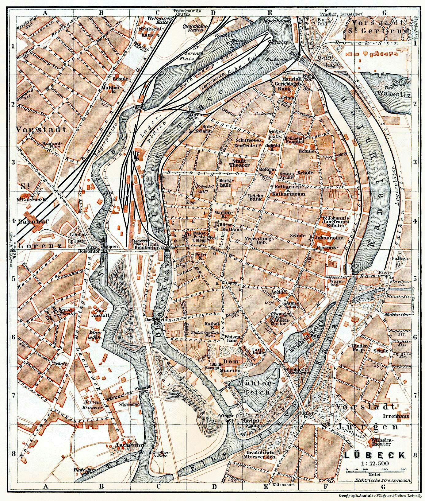 City Map of Lübeck, Germany, 1910, by Baedeker